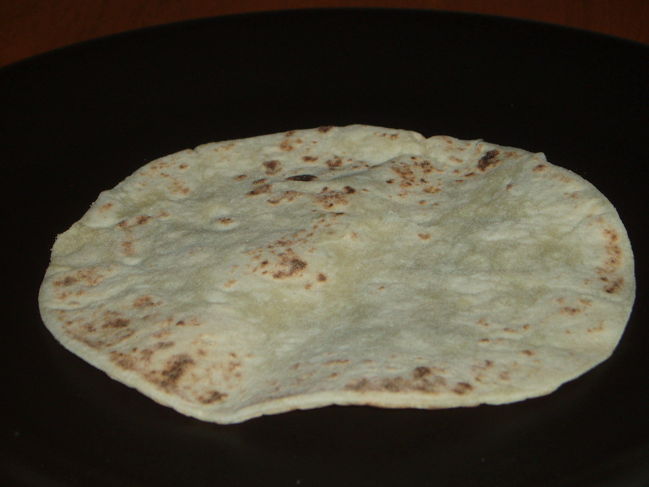 griddle cake.